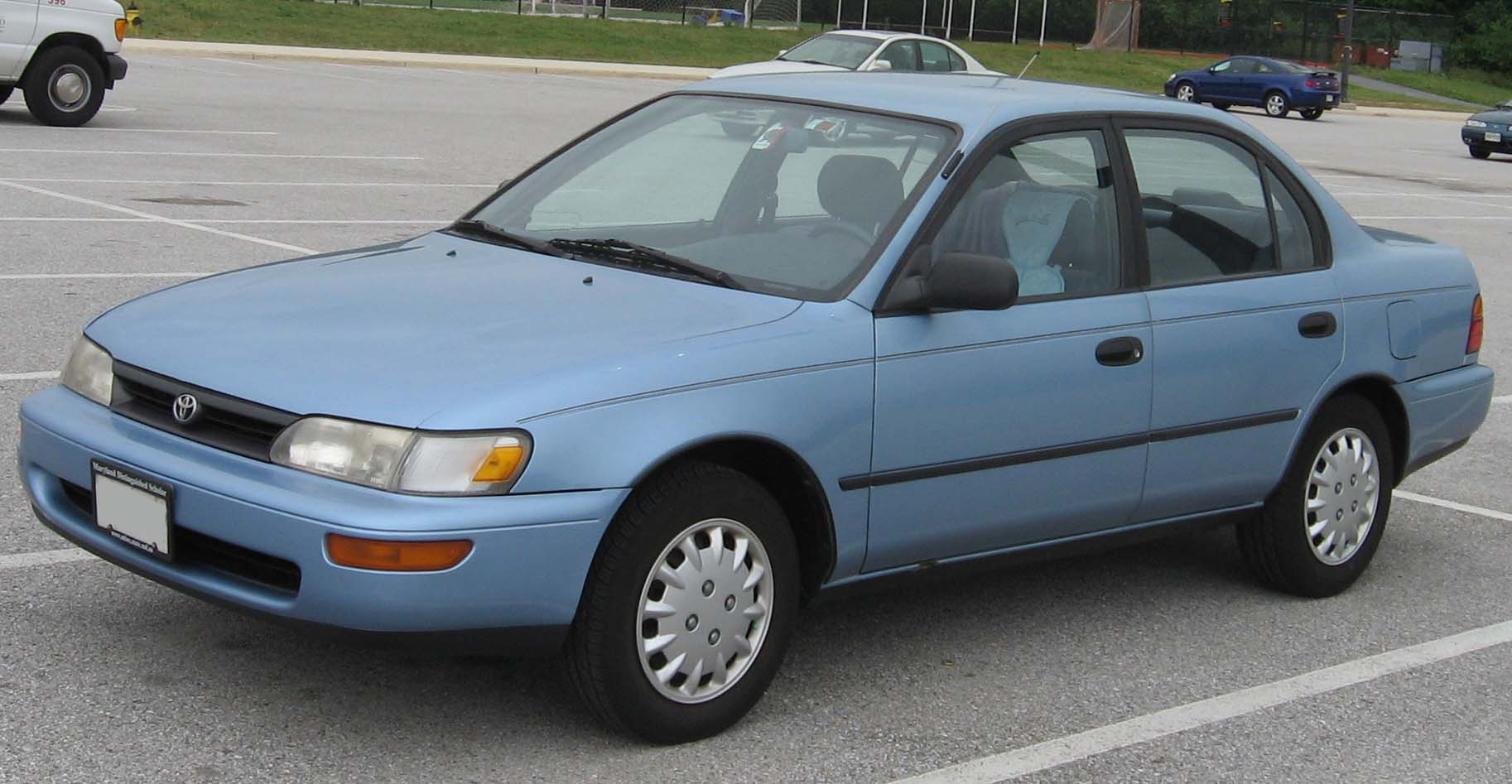 1993-1995 Toyota Corolla photographed in College Park, Maryland, USA.